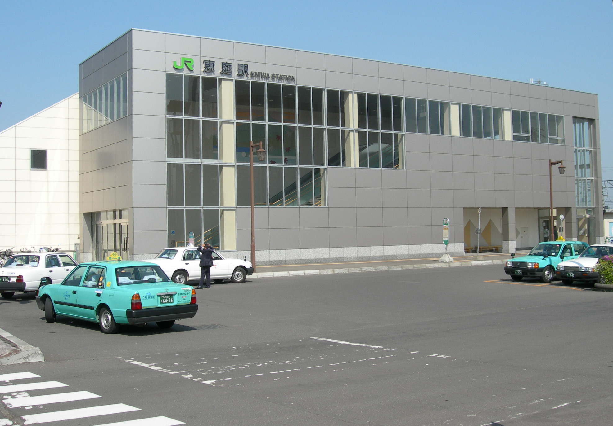 Eniwa Station in Chitose Line, Japan